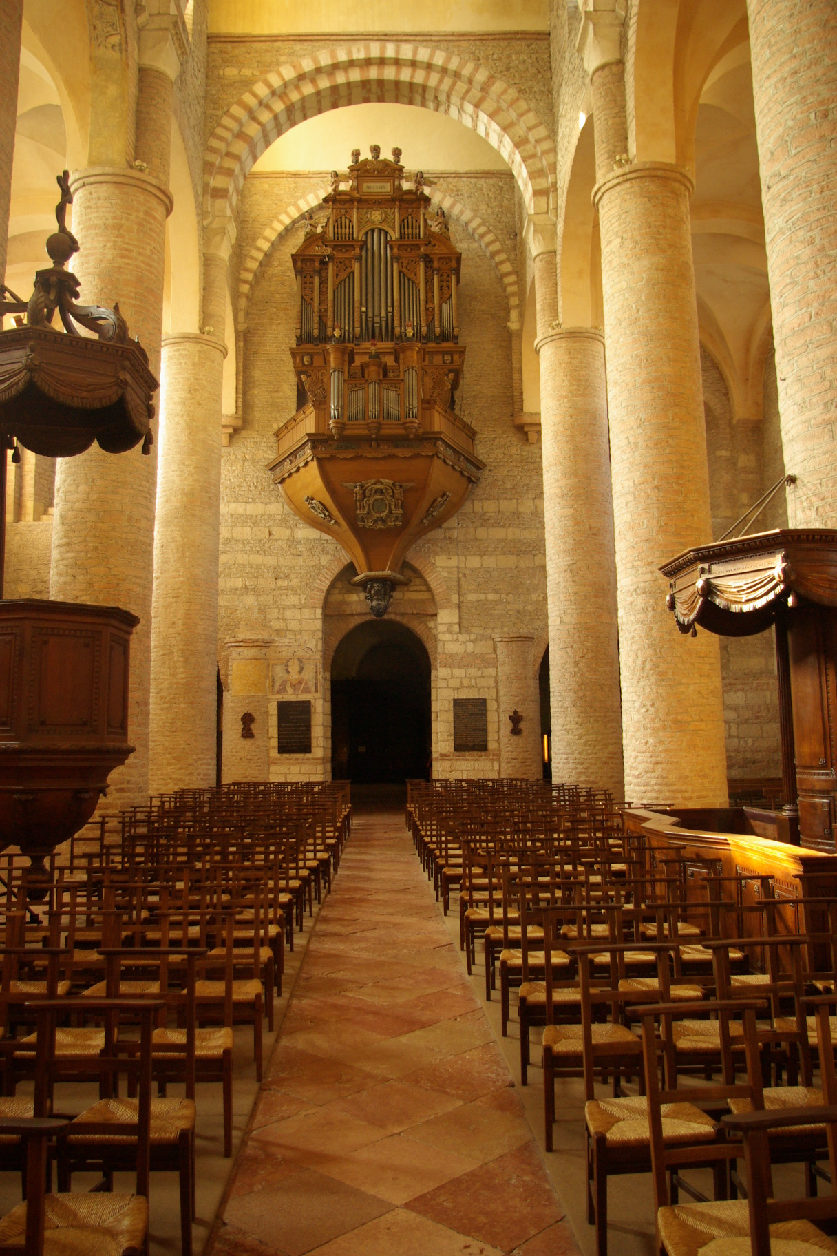 Organ of the Abbaye Saint-Philibert de Tournus